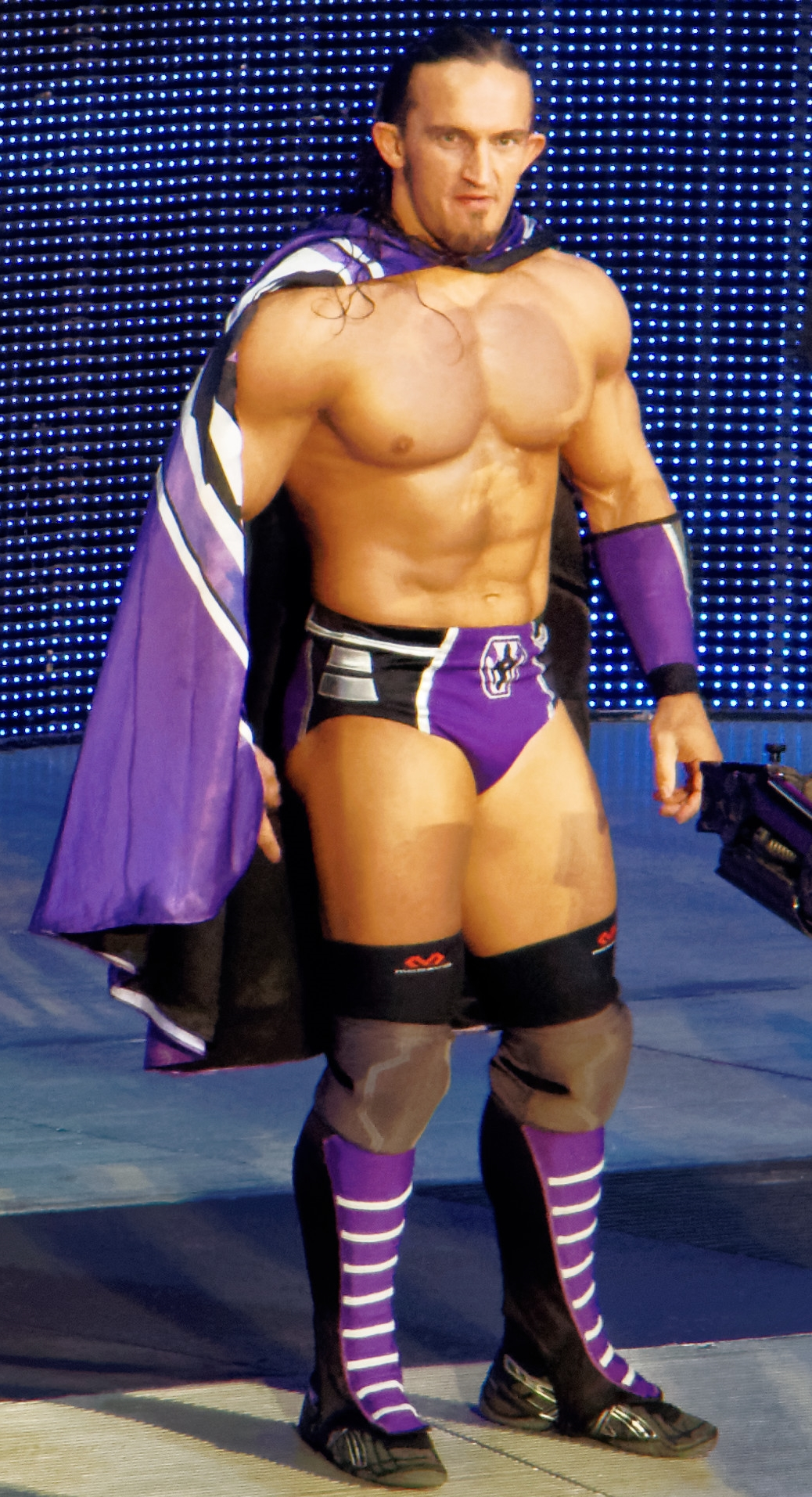 Neville making his entrance for his WWE main roster debut during the WWE Raw television taping on March 30, 2015.